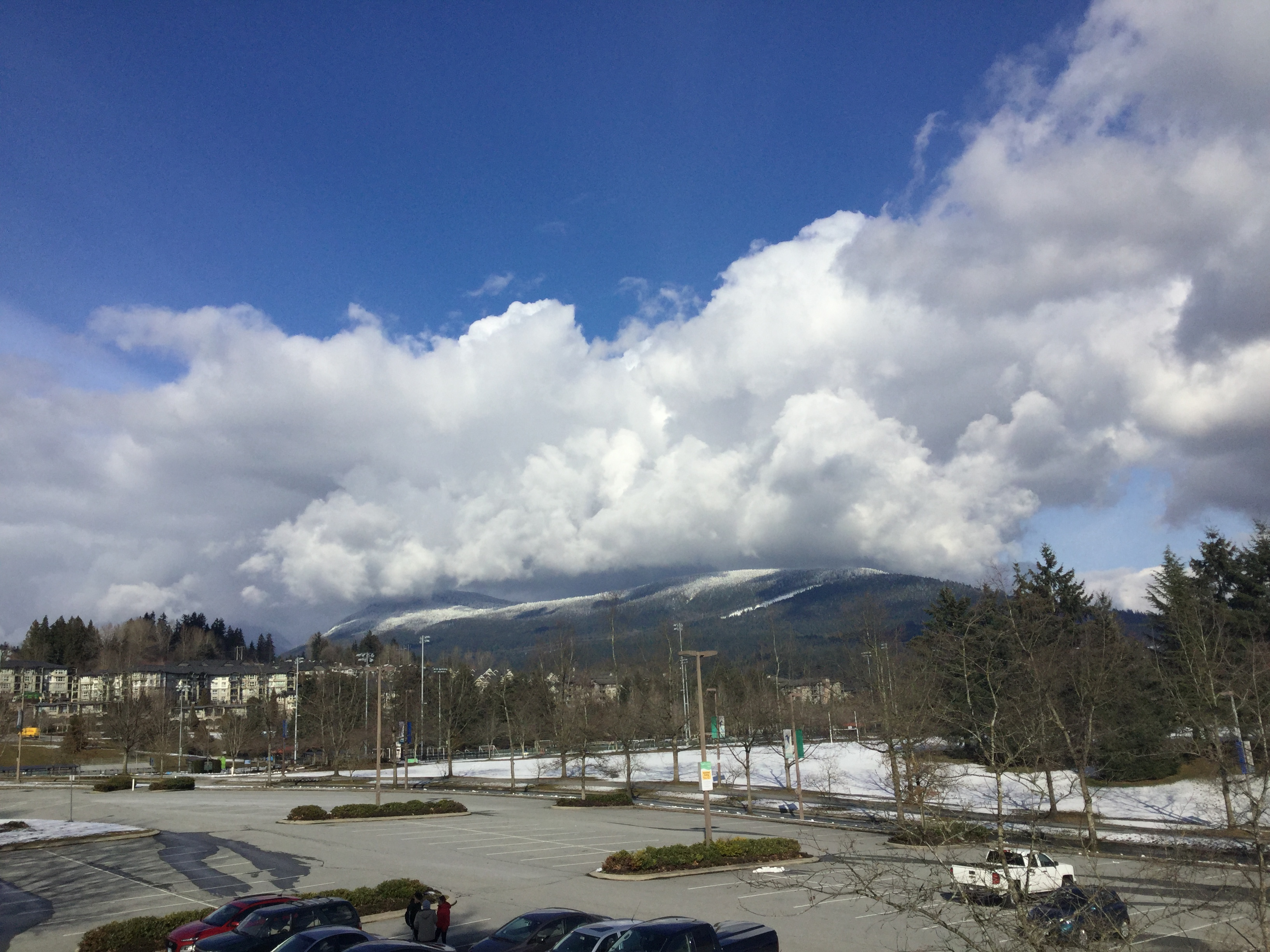 Some clouds over Coquitlam, on March 8 2019.